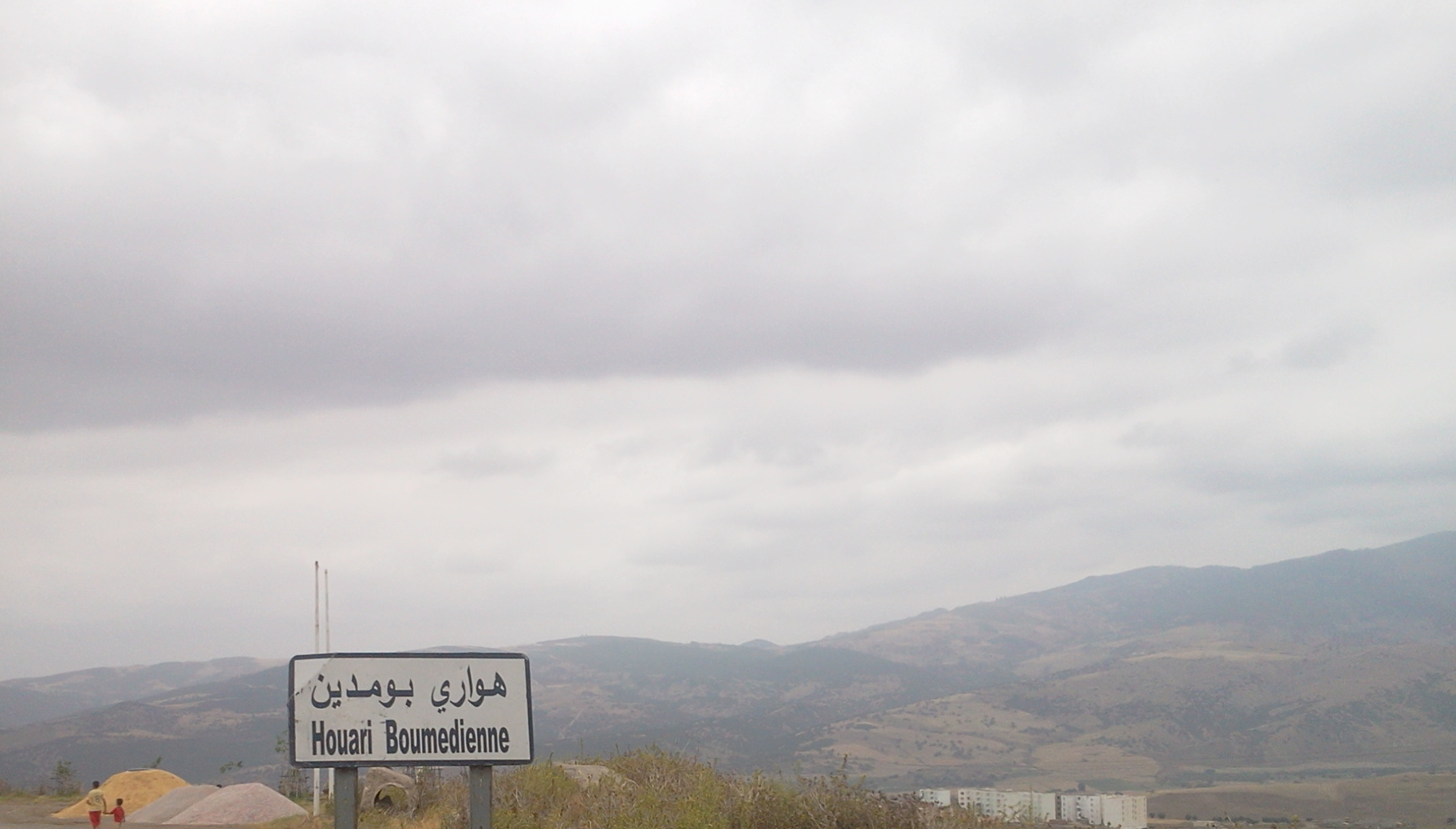 Originally the village name was Khrarba, was renamed H.Boumedienne in the 80s.